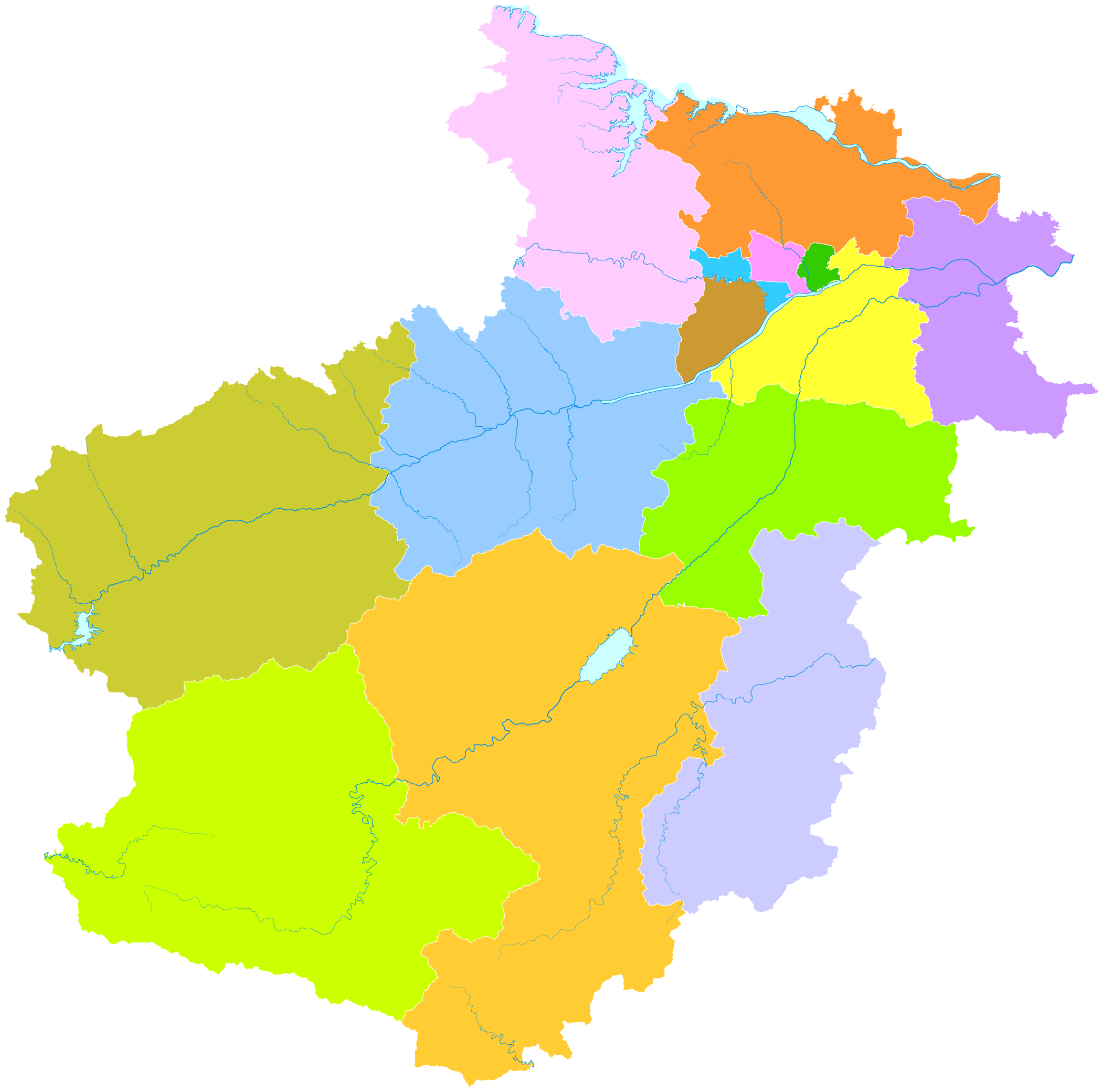 administrative divisions of Luoyang City, Henan, China